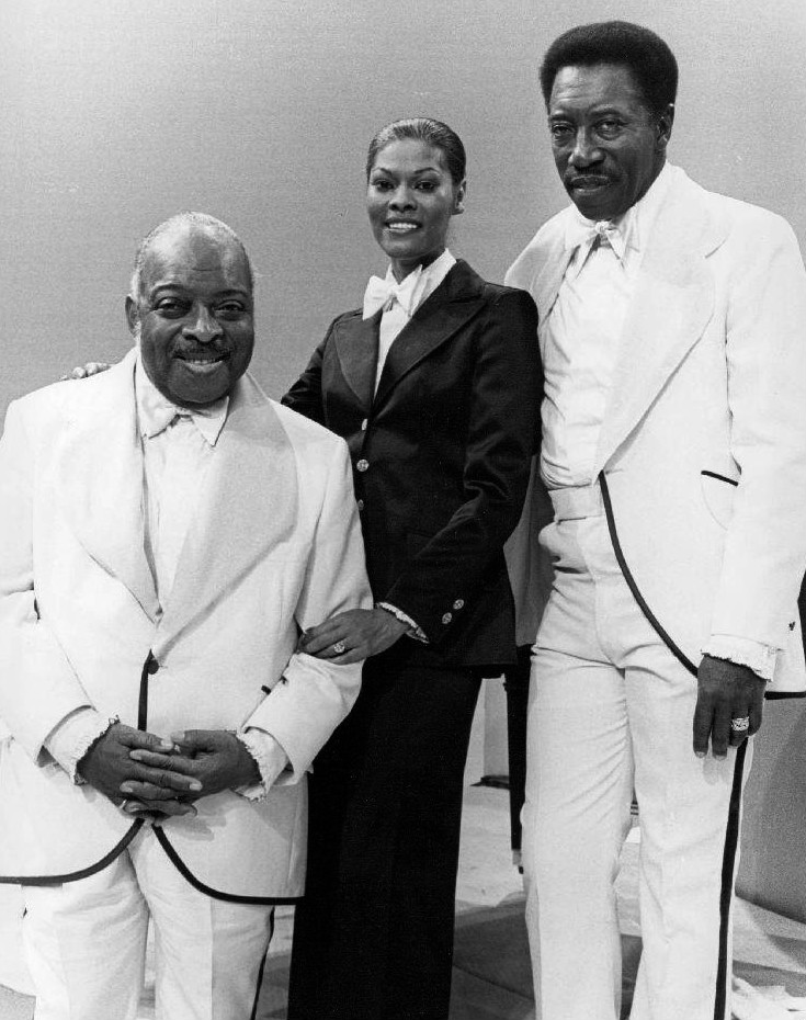 Photo of Count Basie, Dionne Warwick and Joe Williams from a 1976 CBS special on jazz.